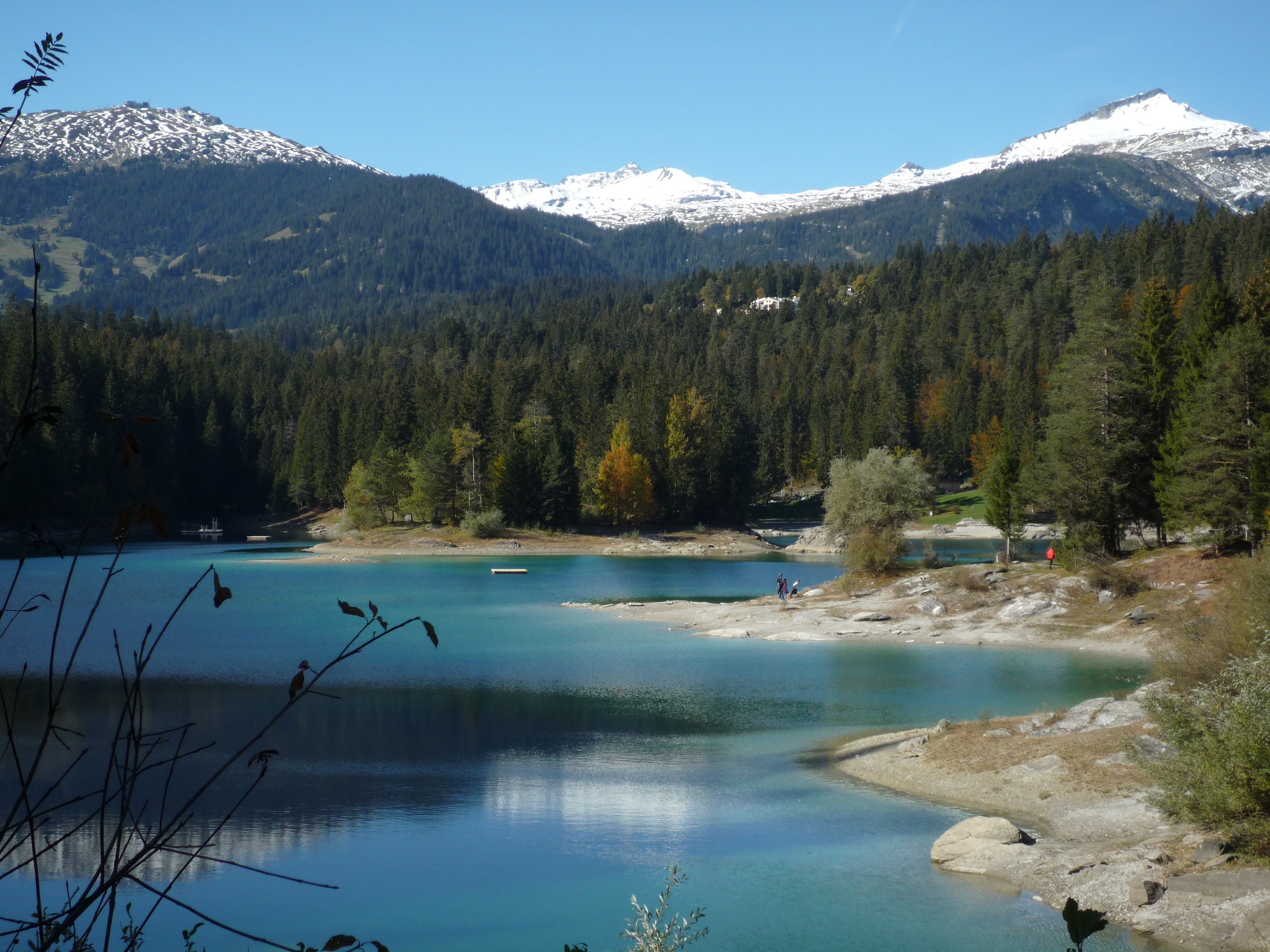 on a hike in Switzerland passing Caumasee most people would think of skiing on Crap Sogn Gion left and Vorab (middle) but actually there was one person swimming that day in the lake. Surface of the lake varies naturally during the year due to underground flow (no river reaches or leaves the lake) reaching a maximum by mid July.